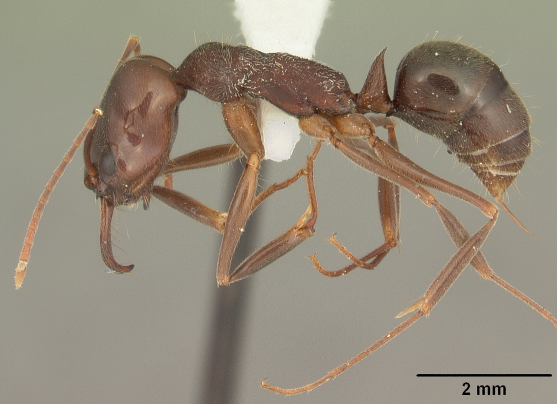 Profile view of ant Odontomachus brunneus specimen casent0104165.